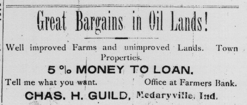 Real estate ad from the Medaryville, Indiana, Advertiser, about 1900. Charles Horatio Guild was a local realtor and member of a prominent family of Gillam Township, Jasper County, Indiana. Medaryville had an oil rush at the turn of the 20th century, but the wells faltered and little trace remains today.